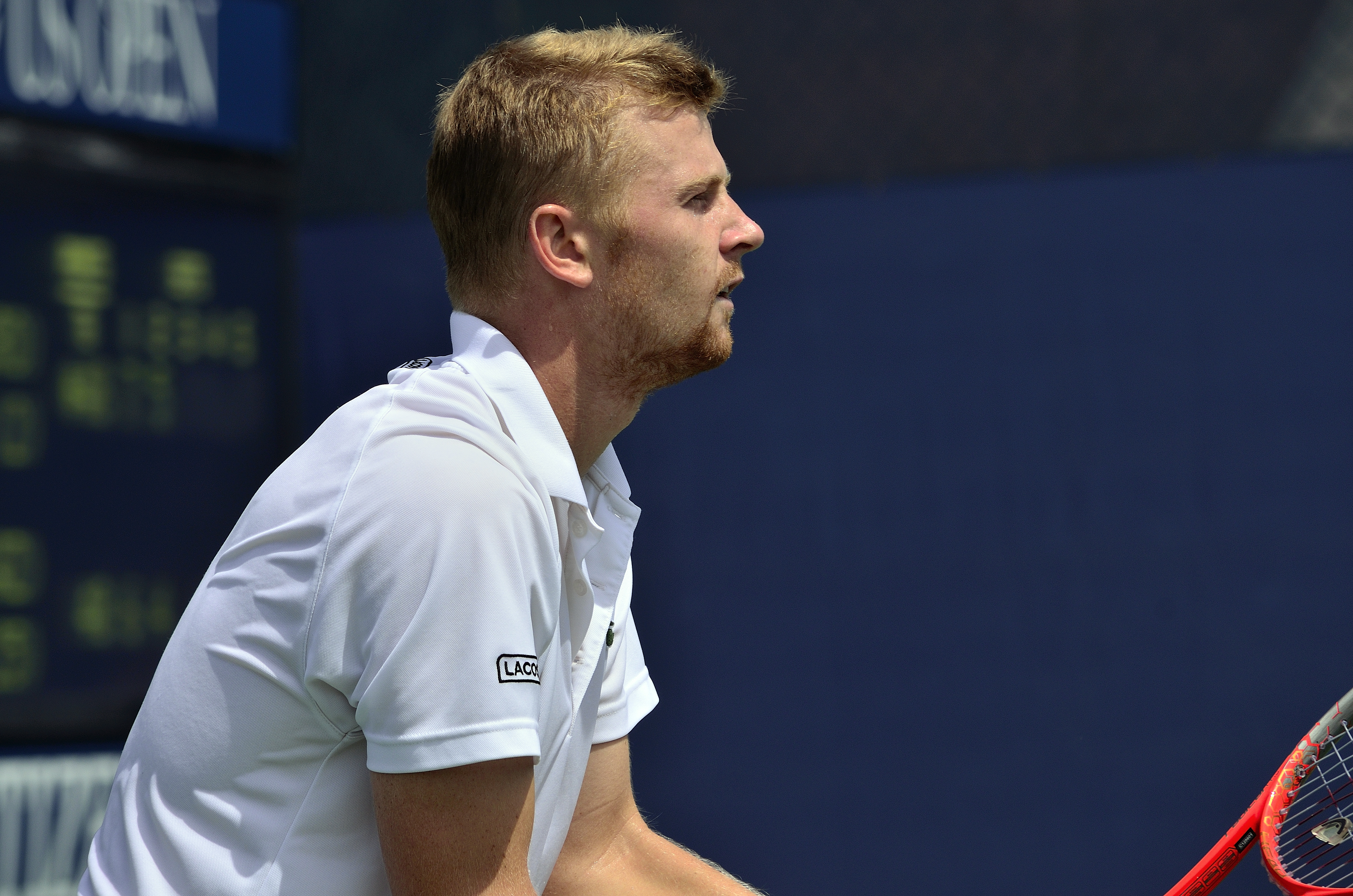 Queens, NY August 23, 2013 Ivo Karlovic (CRO) def. Andrey Gobulev (KAZ)